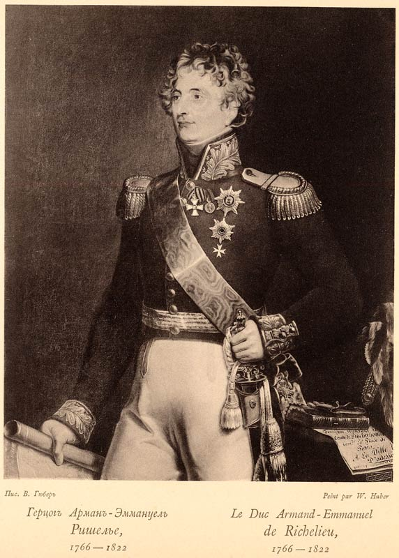 Gertsog Arman-Emanuel Rishel'e, 1766-1822